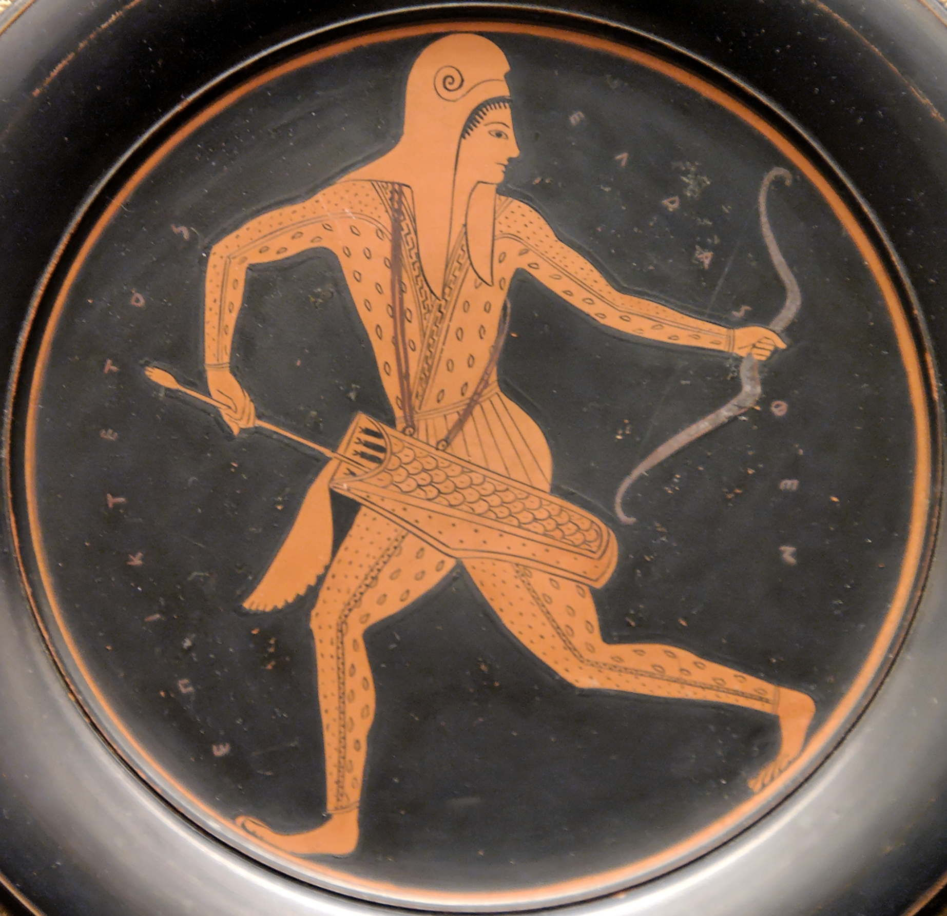 Archer drawing an arrow from his quiver as he turns to shoot at the enemy. Inscriptions in small and neat letters: to the left of the figure: Επικτετος; on his right: εγρασφεν (sic). Interior from an Attic red-figured plate. From Vulci.